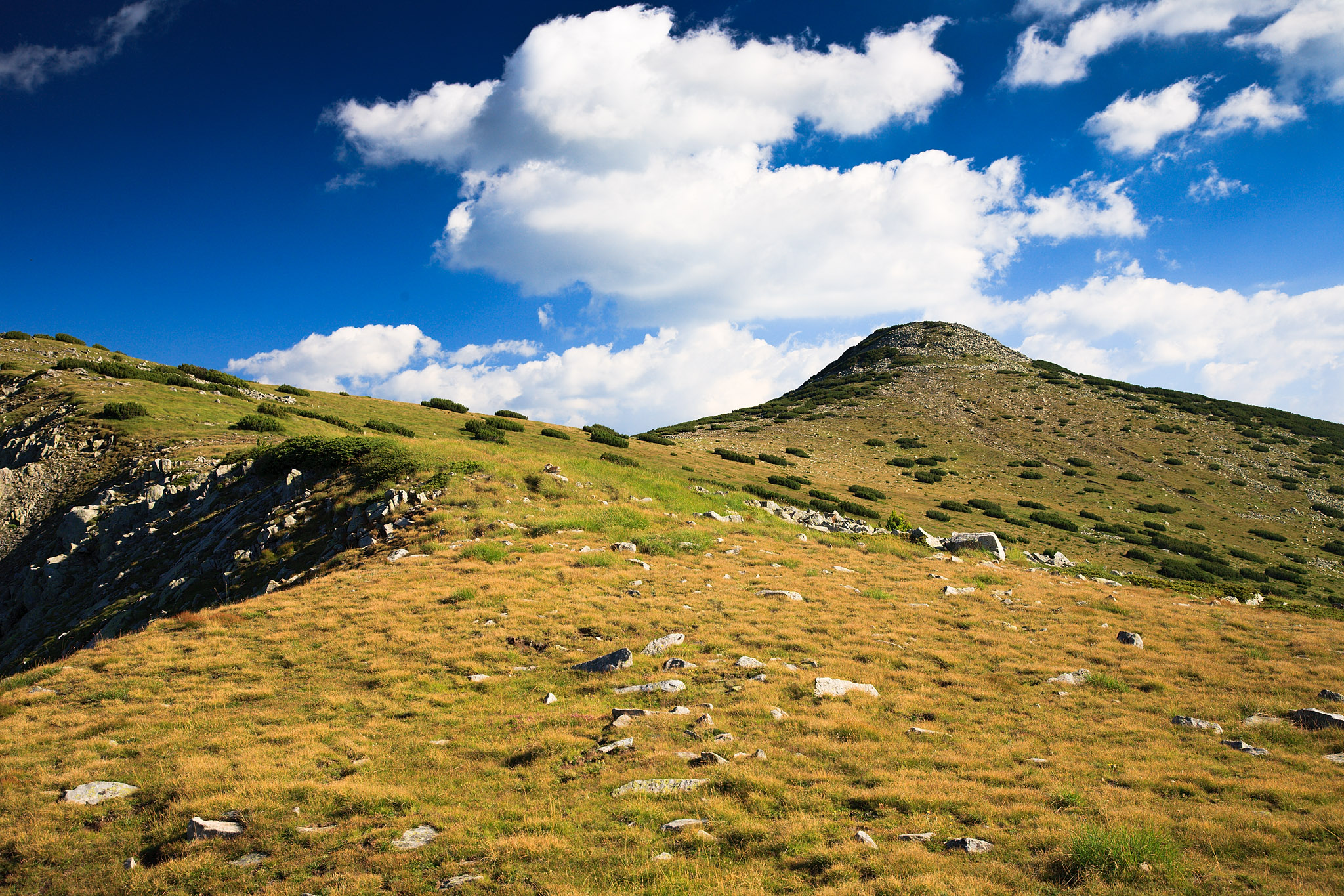 Kamenishki vrah, a peak in Pirin moutain, Bulgaria